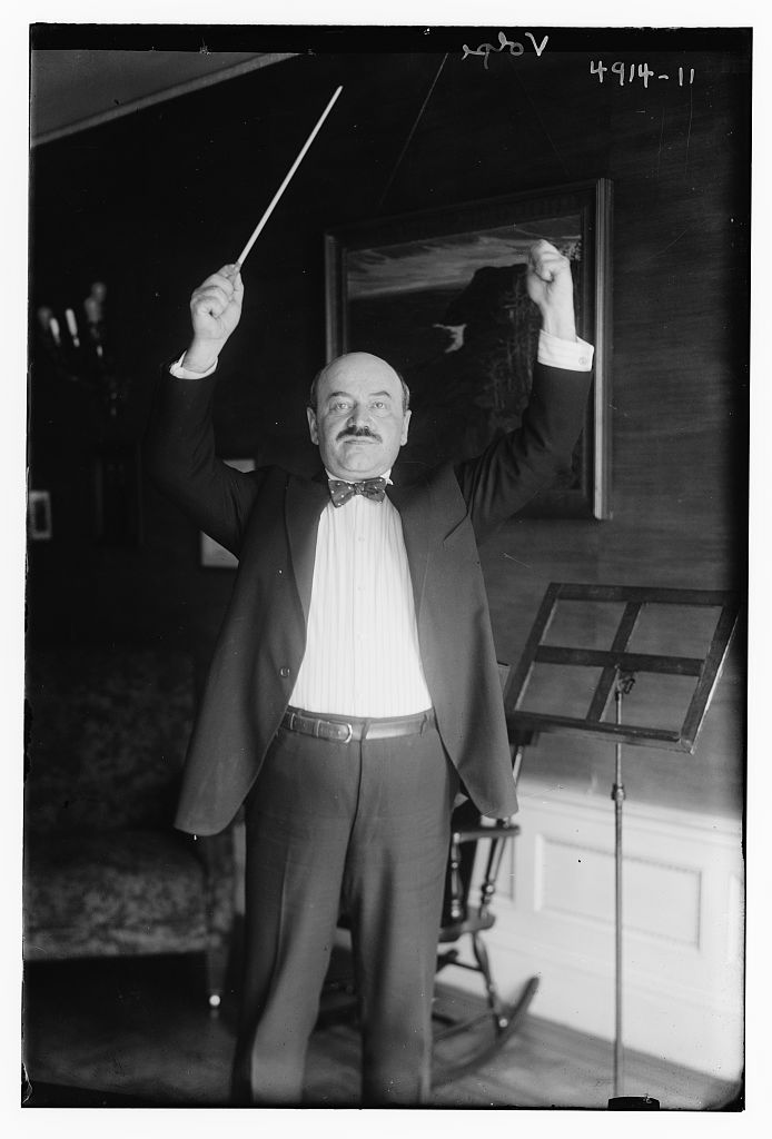 Arnold Volpe in 1919 with raised arms